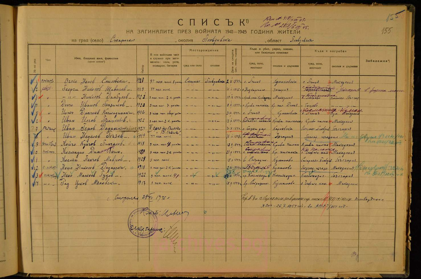 List of Peoples from Starosel Killed in World War II